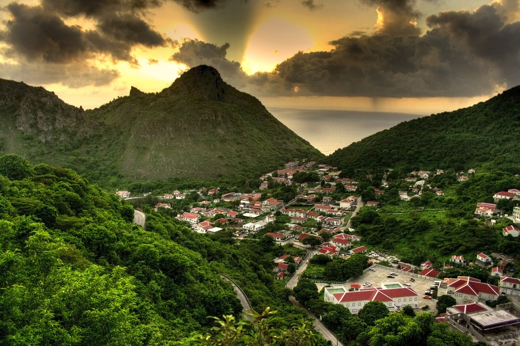 Picture of The Bottom, Saba, Netherlands Antilles. On the bottom right, you can see the Saba University School of Medicine Campus. Image credits to Simon Wong (Class of Winter 2006).